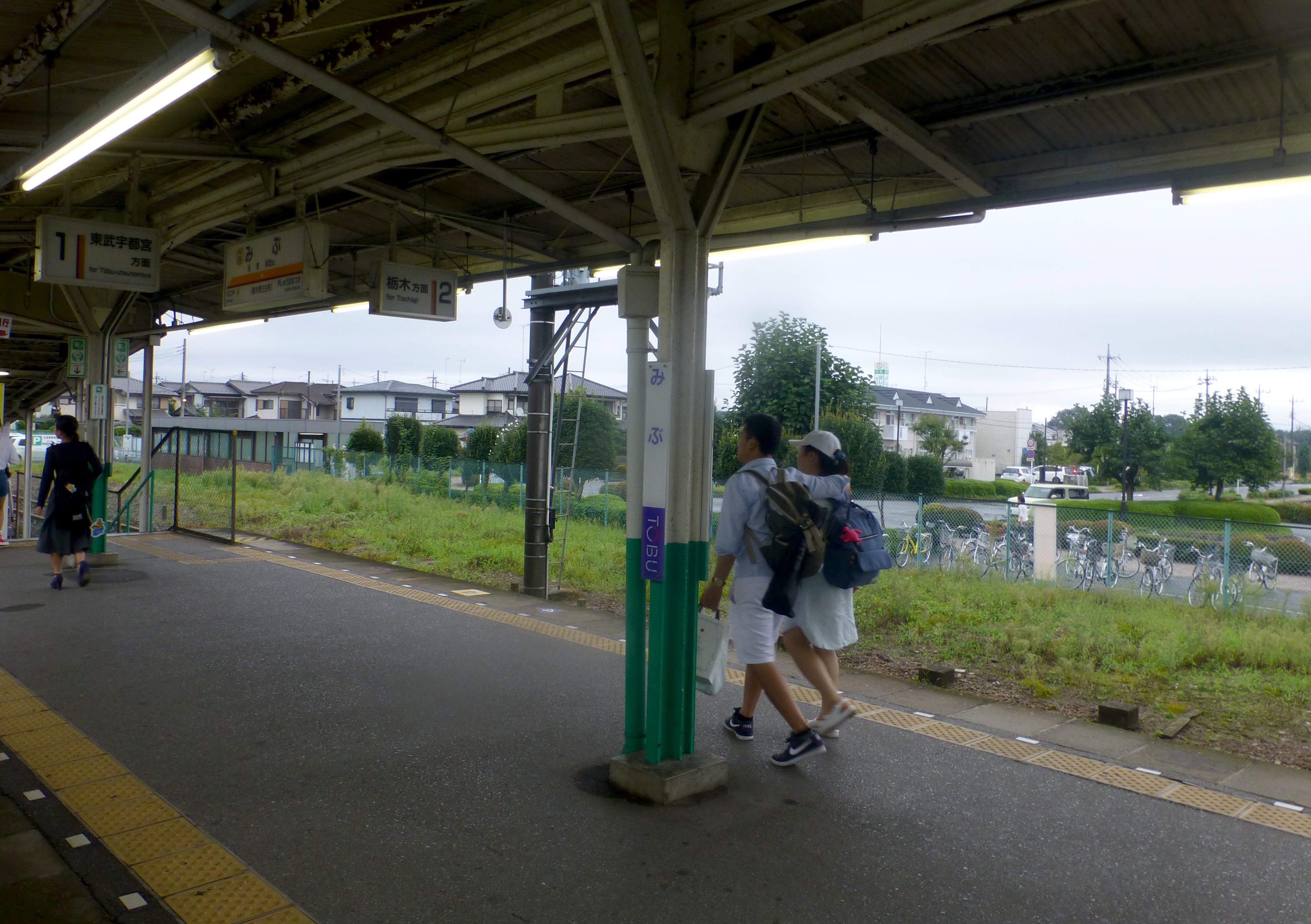 壬生駅のホーム (Mibu Station platform)